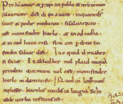 Extract of the Oaths of Strasbourg